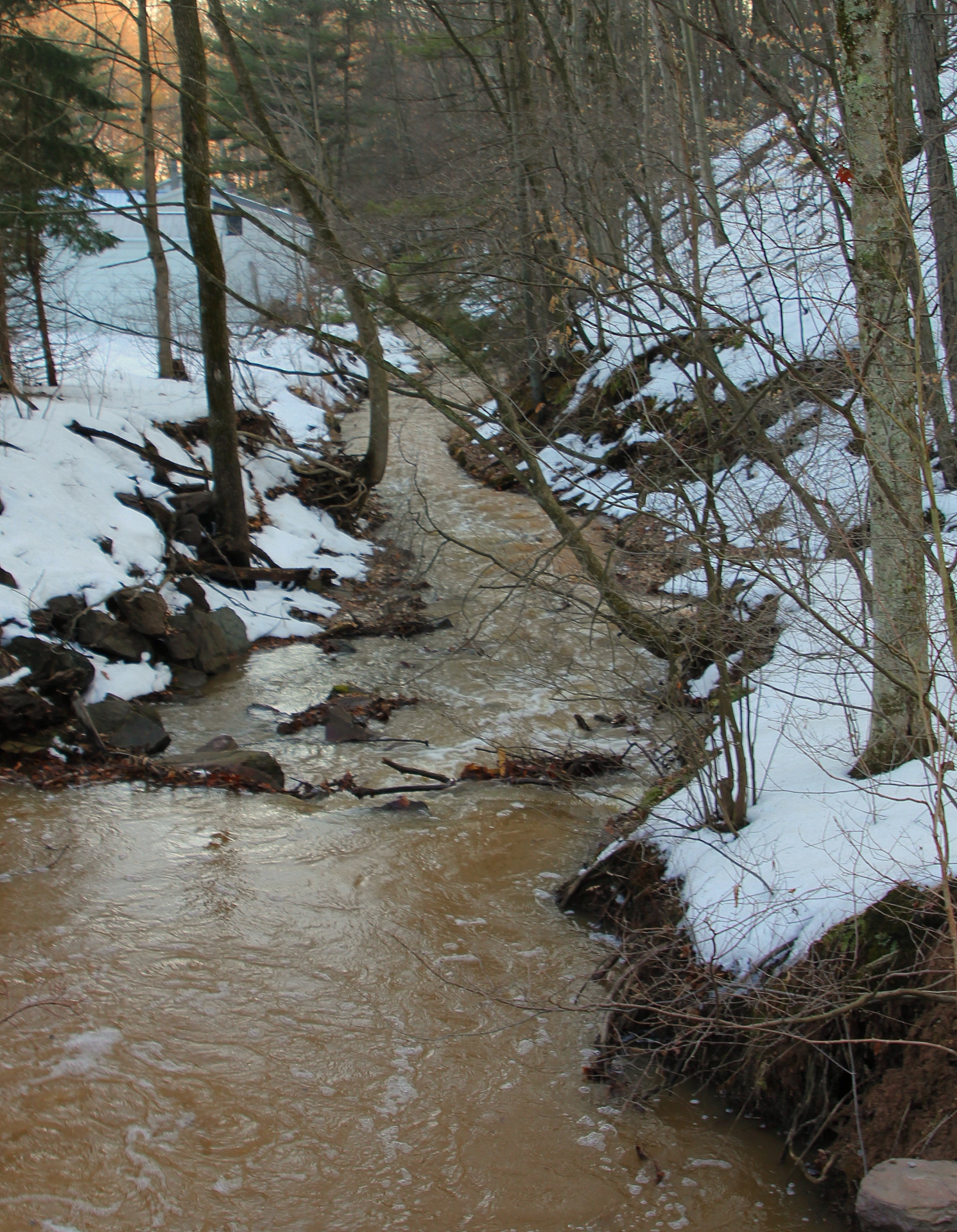 Kinney Run looking downstream near its headwaters in Spring 2015. The high flow conditions are due to snowmelt.